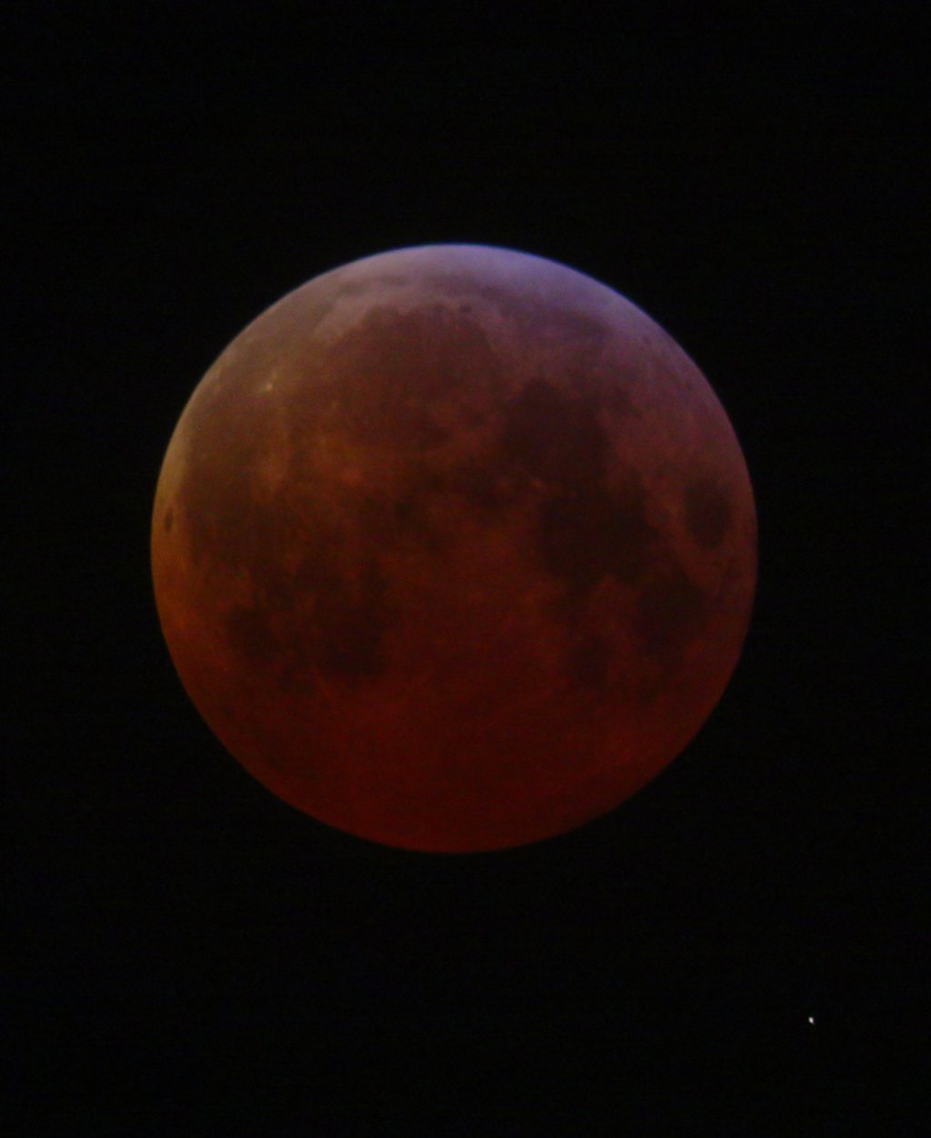 Lunar eclipse of the March 3rd, 2007